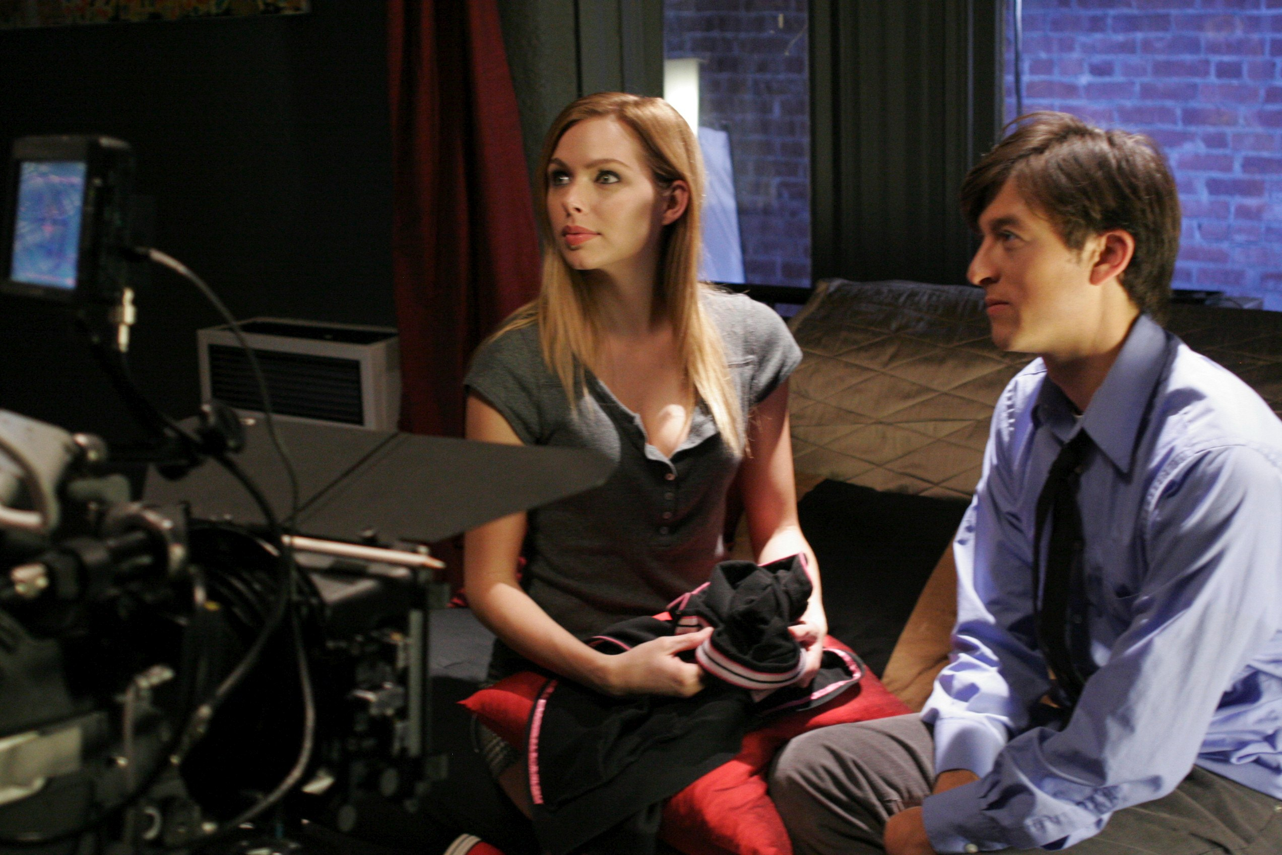 Behind the scenes photo from the feature film Forgotten Pills.